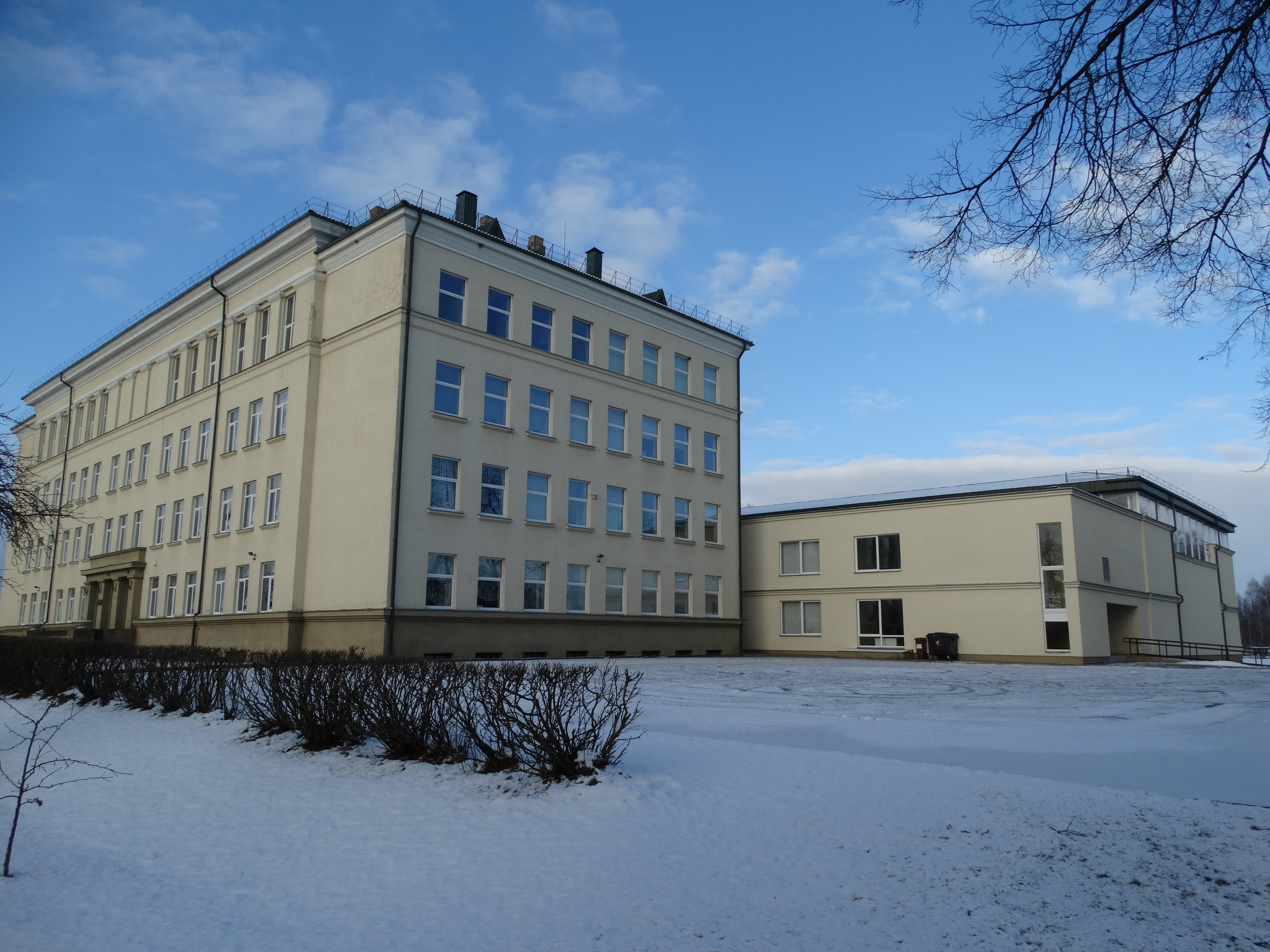 Atžalynas Gymnasium, Pakruojis, Lithuania